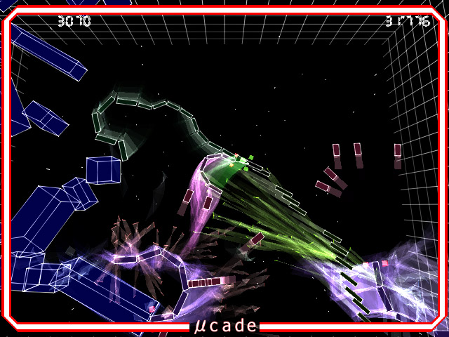 Screenshot of the freeware video game Mu-cade